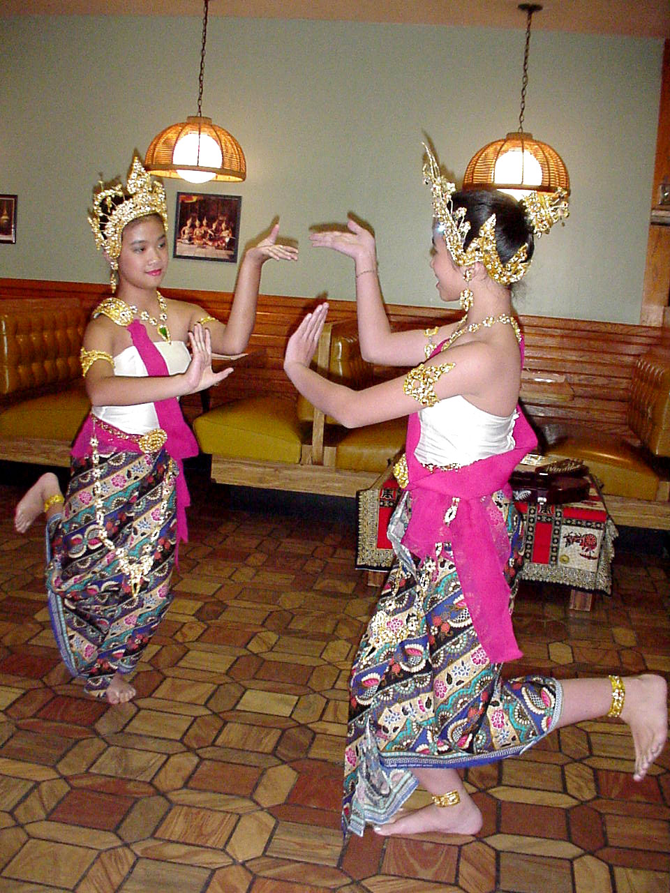 Thailand dancers